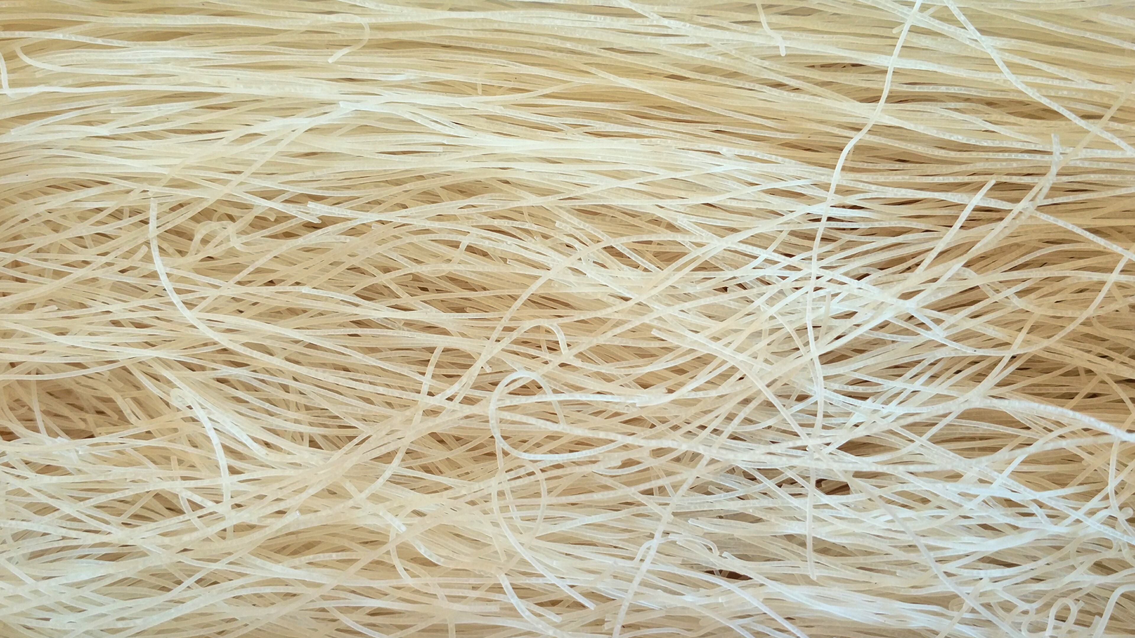 closeup picture of rice vermicelli